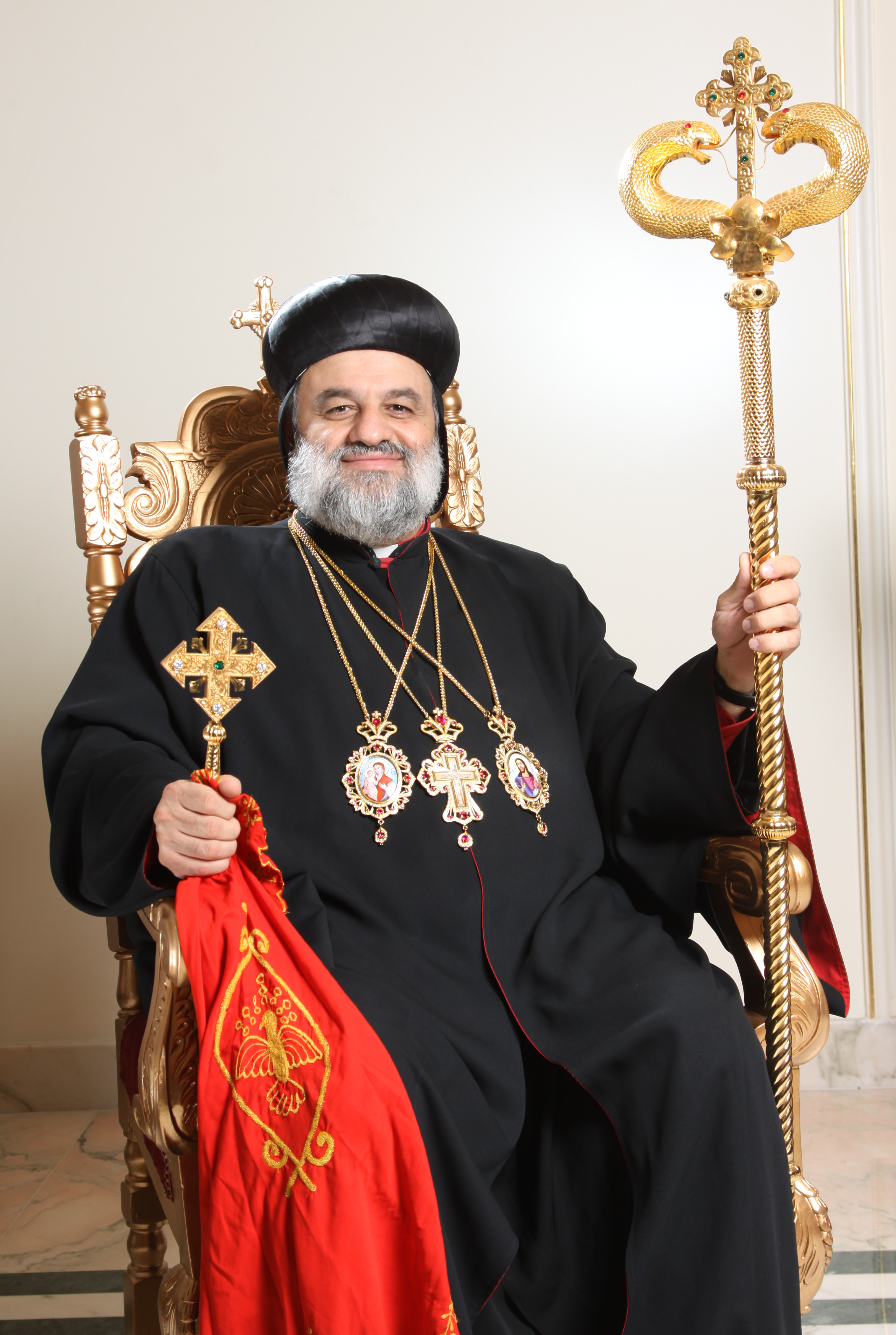 Publicity shot of His Holiness Patriarch Moran Mor Ignatius Aphrem II seated and in color.